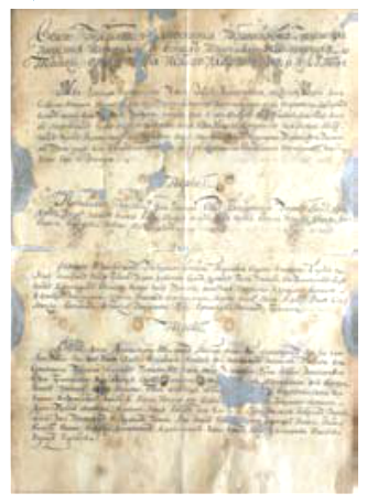 Stega (Restraint) the first Montenegro legal act 1796.